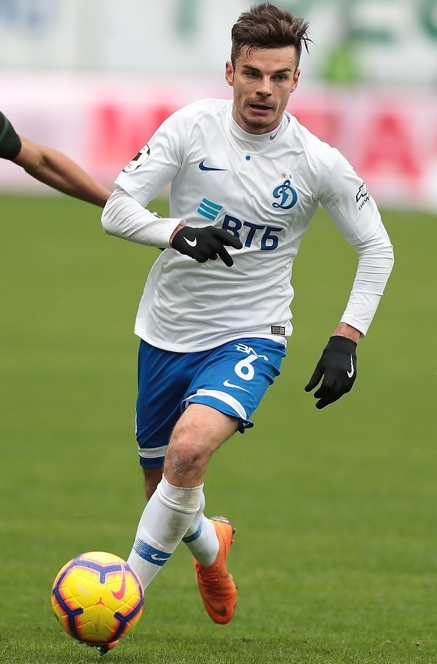 Artur Yusupov with FC Dynamo Moscow in a game against FC Krasnodar.